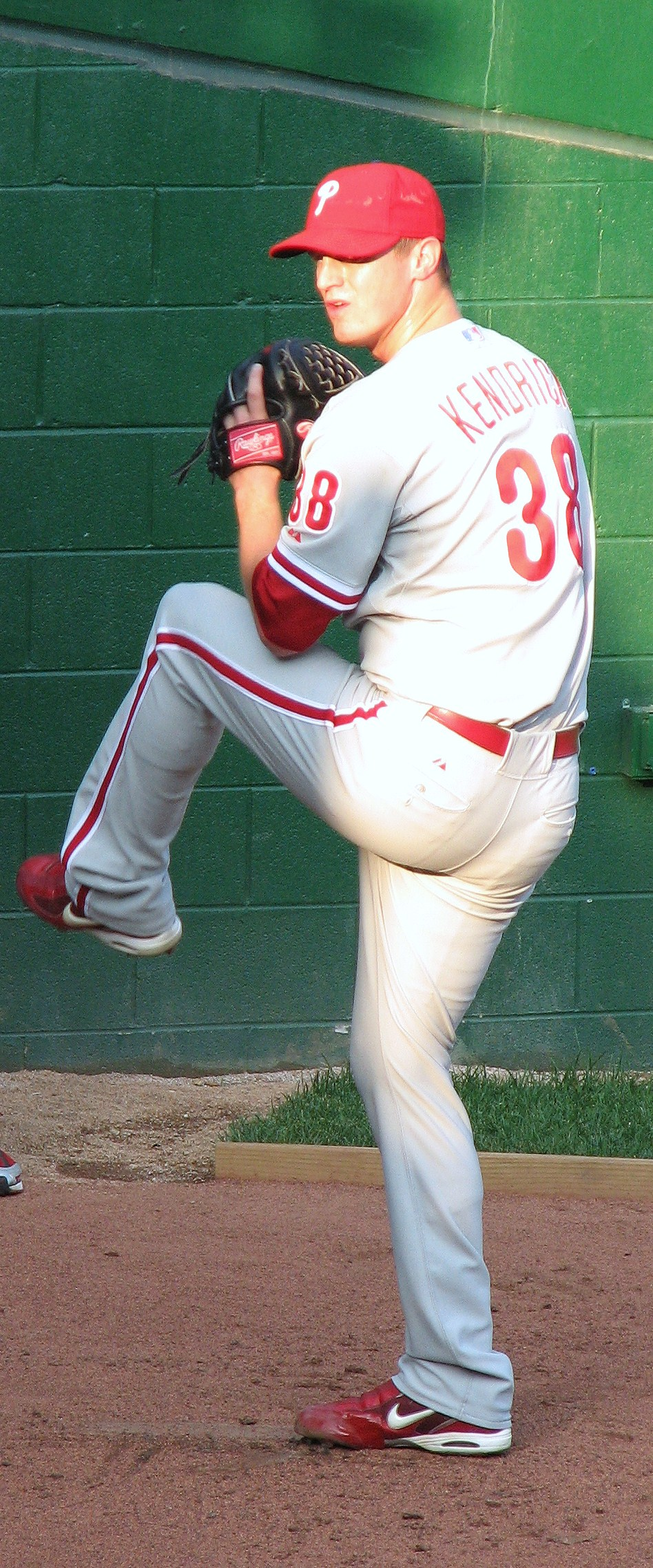 Description Kyle Kendrick warming up for his start against the Nationals, July 31, 2008 Date1 August 2008SourceI created this work entirely by myself.AuthorKV5 • Squawk box • Fight on! 15:26, 1 August 2008 . . Killervogel5 . . 948×2,278 (709 KB) Kyle Kendrick warming up for his start against the Nationals, July 31, 2008